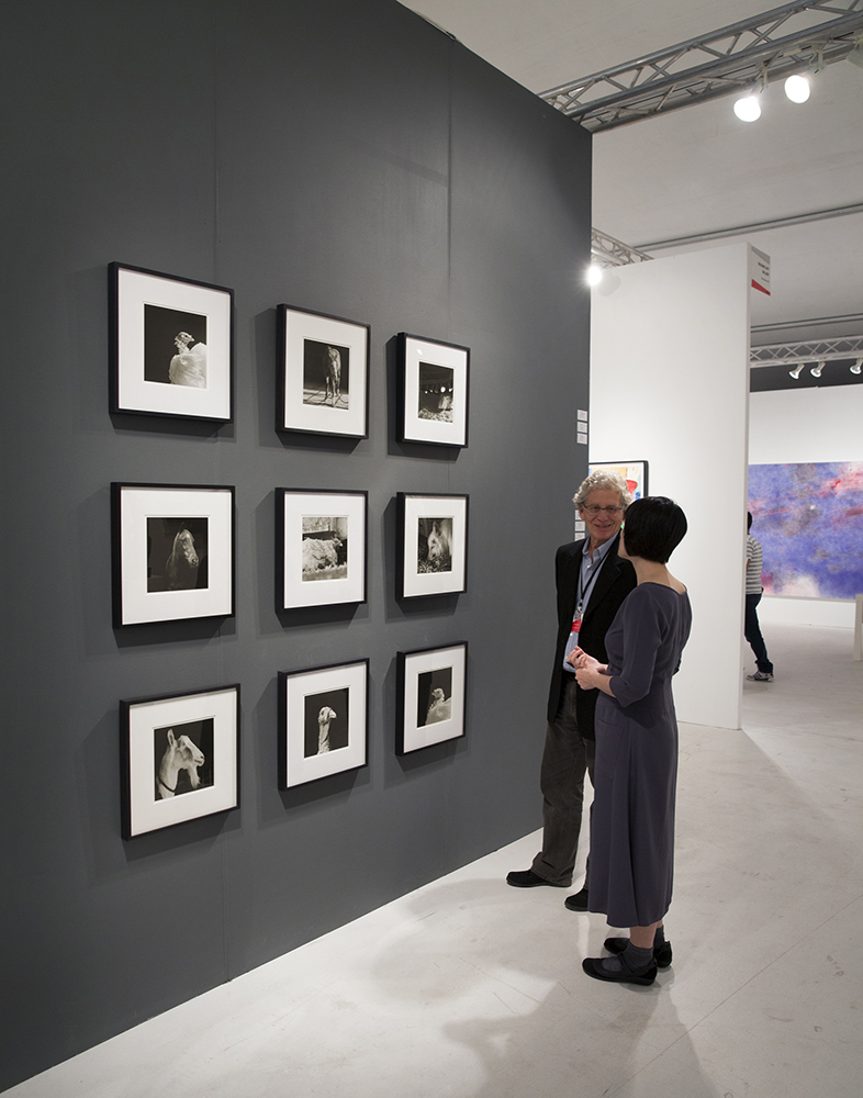 Isa Leshko and Richard Levy, Elderly Animals Installation